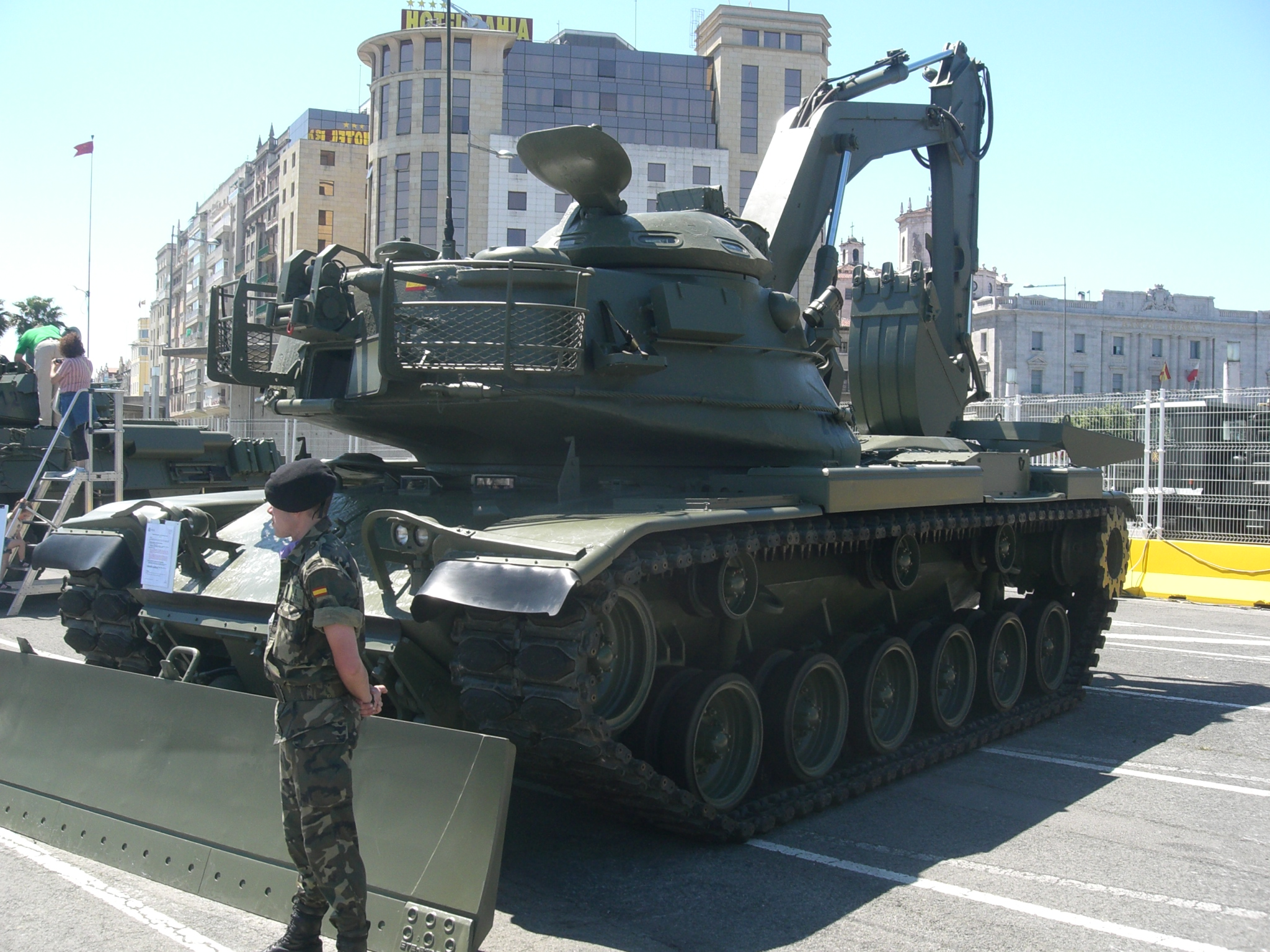 CZ 10/25E Alacrán